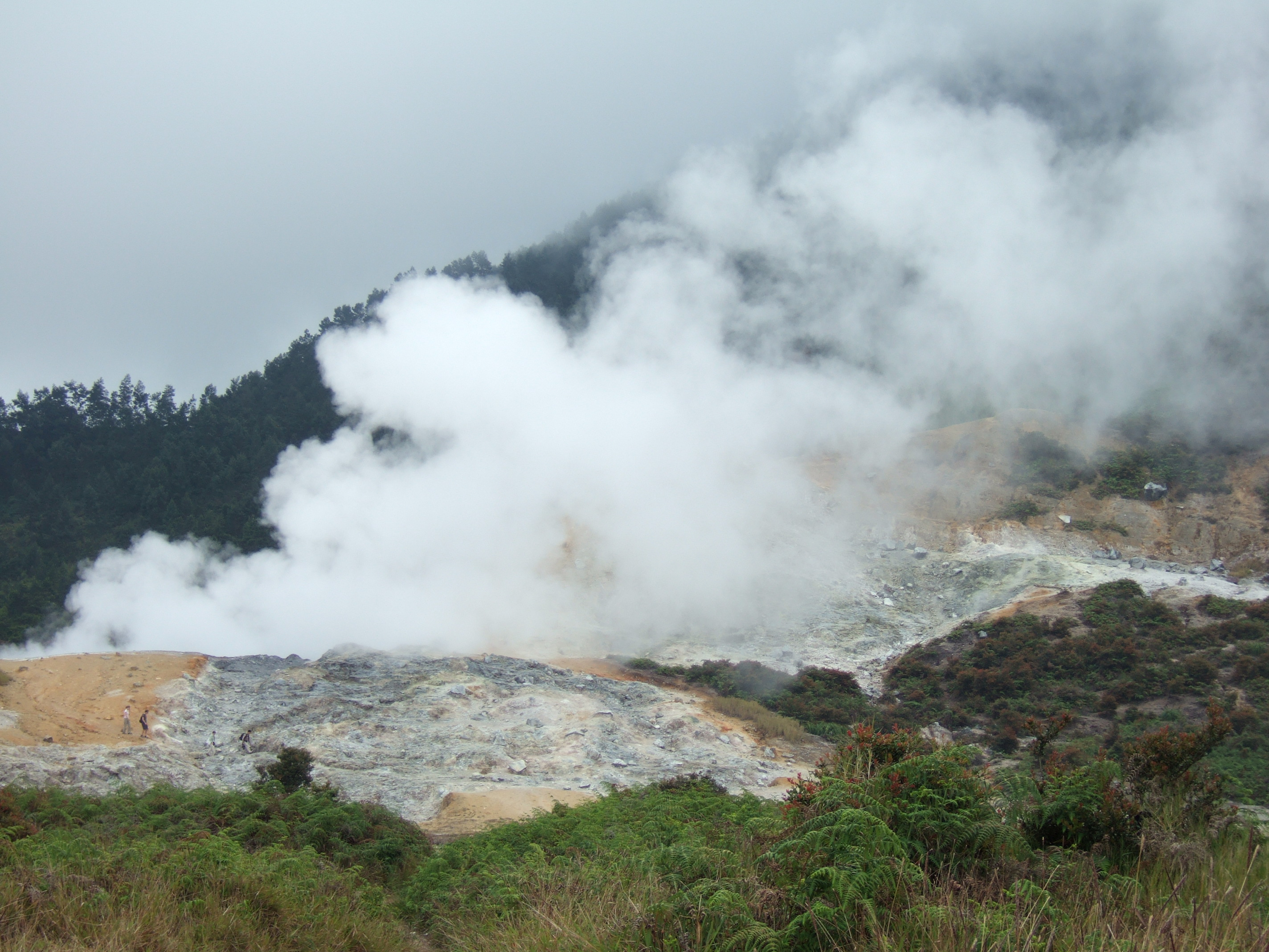 Sikidang crater, Dieng Plateau, Central Java, Indonesia